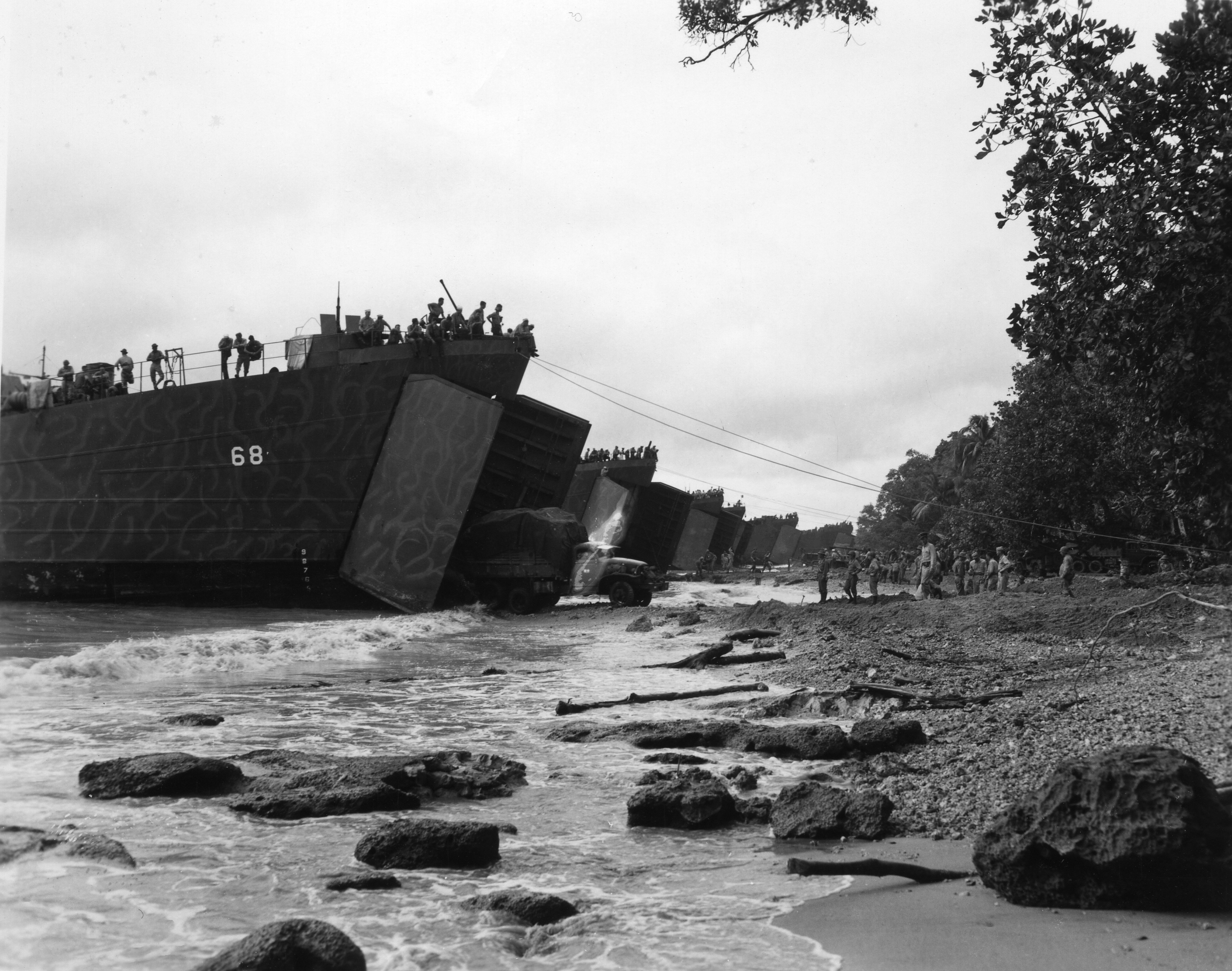 Truck exiting from a LST in Cape Gloucester.